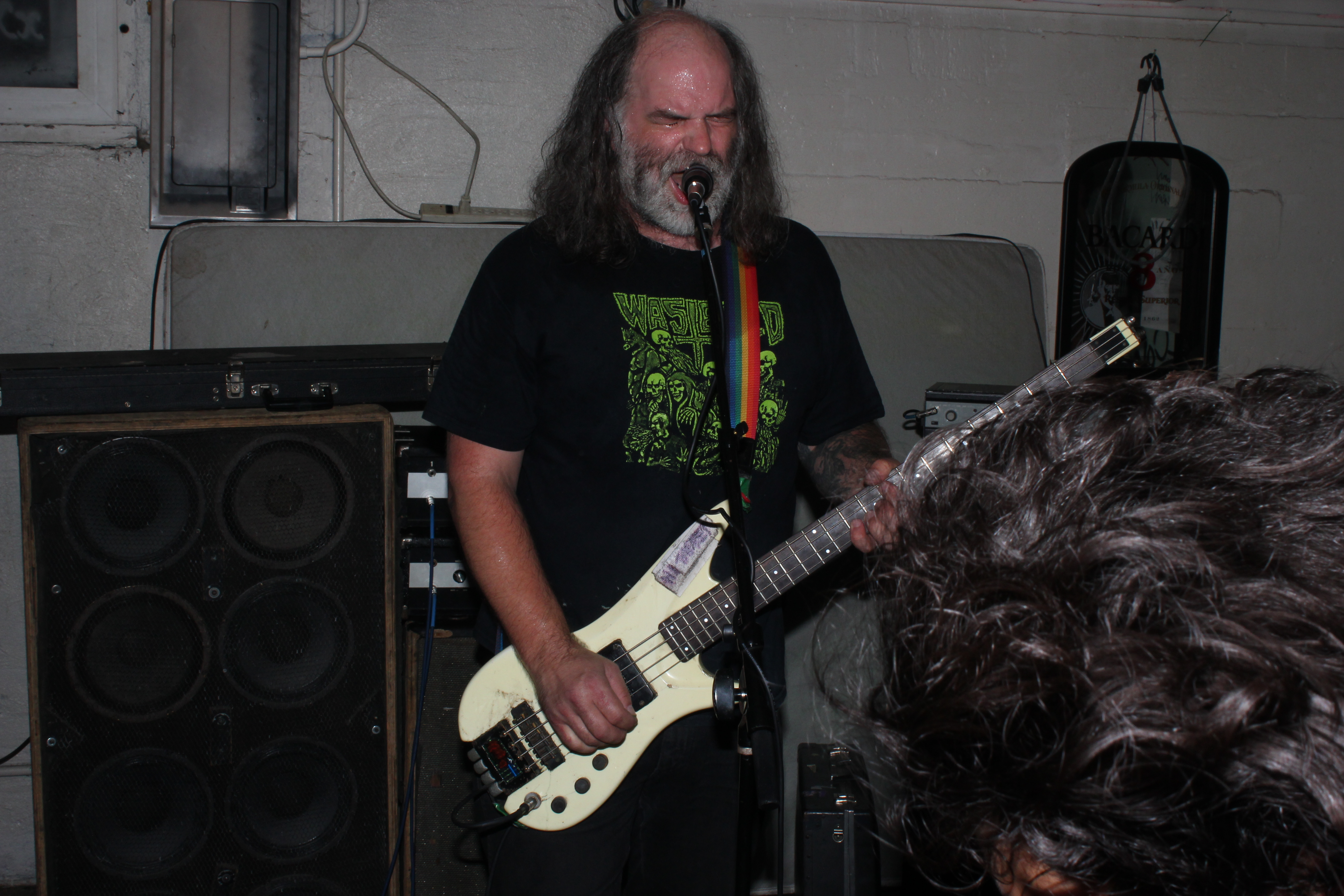 Thrones Thrones live performance at the Bloodshed in Portland, Oregon, 2015-08-10